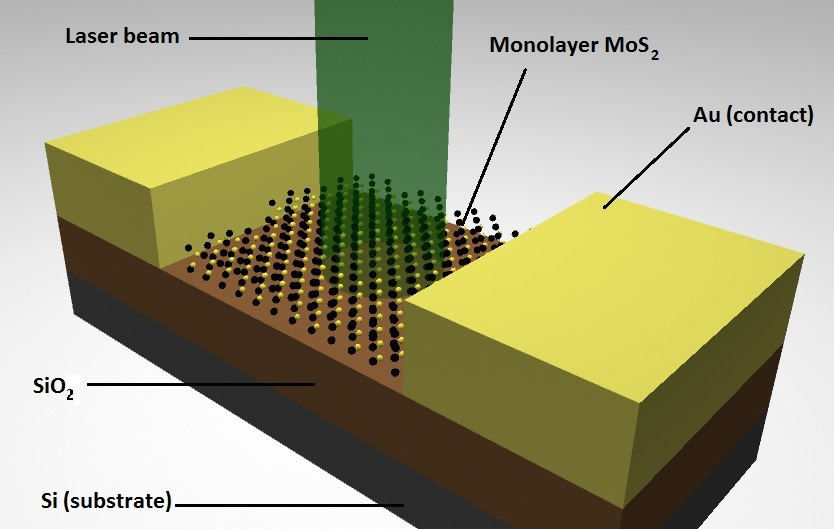 Section of an ultrasensitive Photodetector based on a monolayer of MoS2